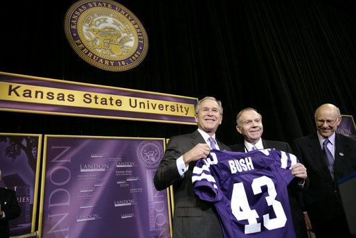 President George W. Bush receives a Kansas State Football jersey from University President Jon Wefald, center, with Kansas Senator Pat Roberts before delivering remarks on the global War on Terror at Kansas State University in Manhattan, Kan., Monday, Jan. 23, 2006. White House photo by Eric Draper